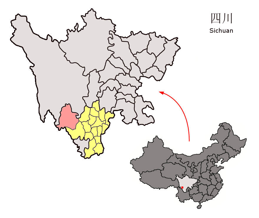 Location of Muli County (pink) and Liangshan Prefecture (yellow) within Sichuan province of China Map drawn in september 2007 using various sources, mainly : Sichuan province administrative regions GIS data: 1:1M, County level, 1990 Sichuan Counties map from